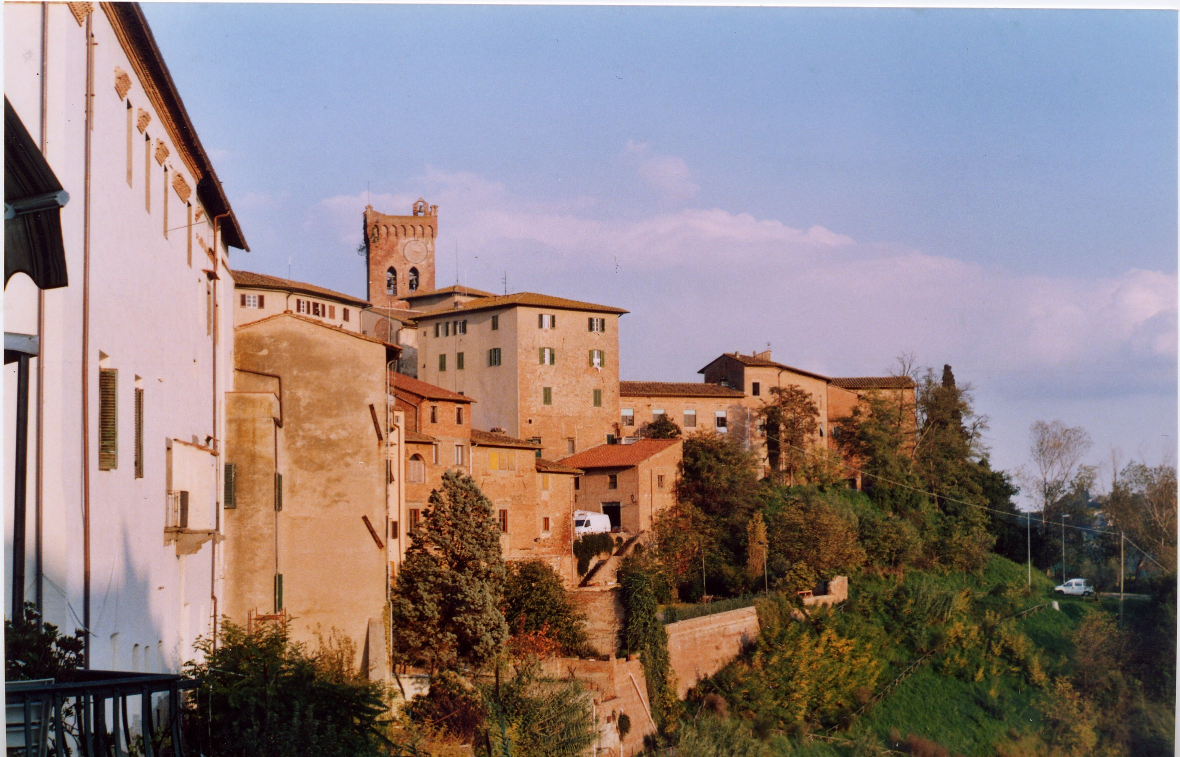 Panorama of San Miniato